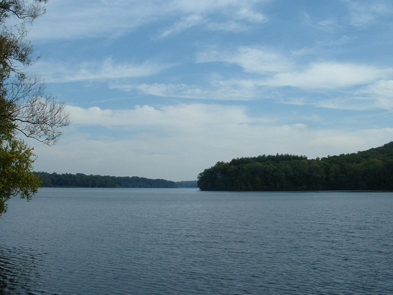 A view of Lake Cochichewick from Great Pond Road, Route 133.